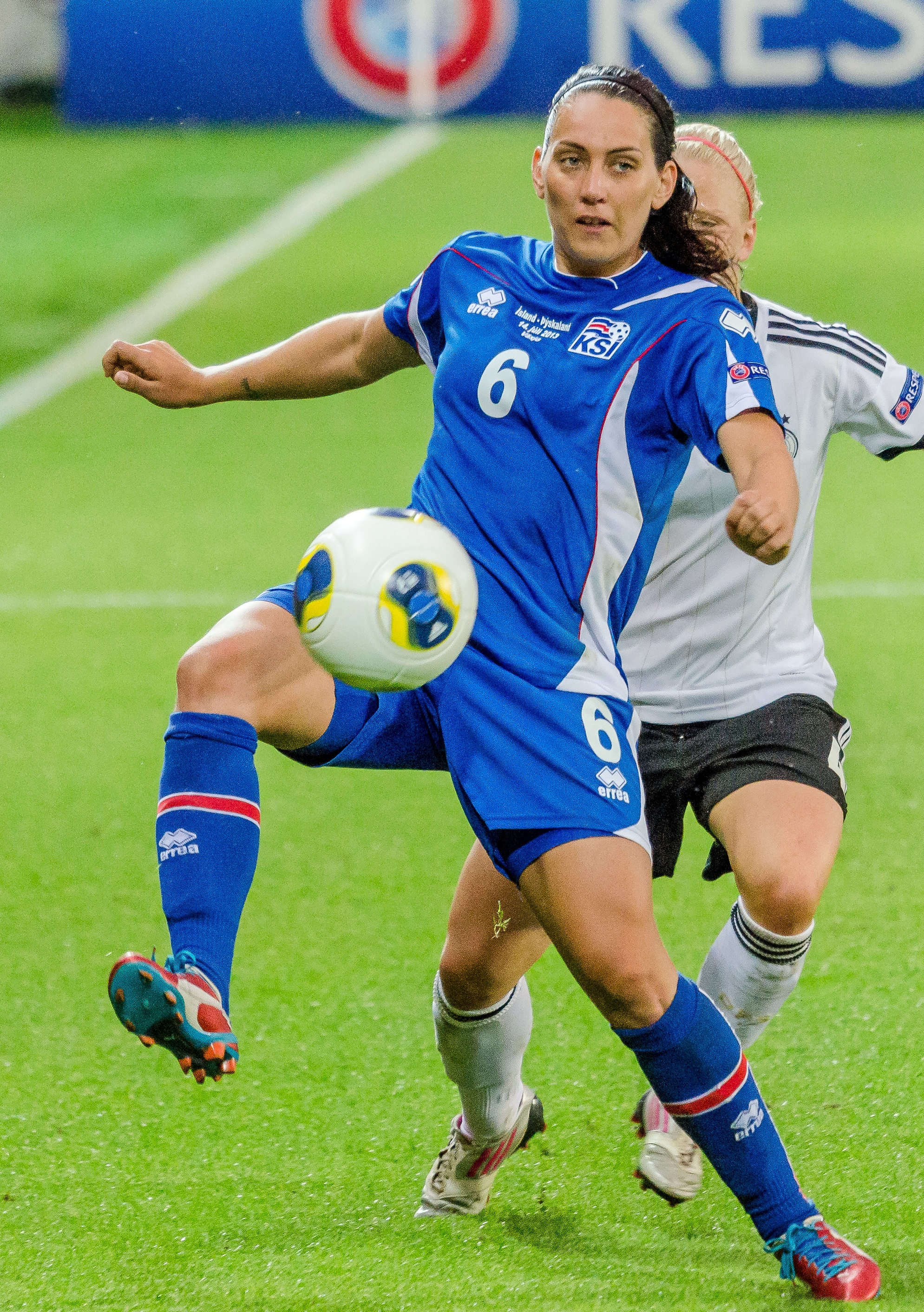 Icelandic football winger Hólmfríður Magnúsdóttir playing a Group stage game against Germany in the UEFA Women's Euro 2013 at Myresjöhus Arena in Växjö.